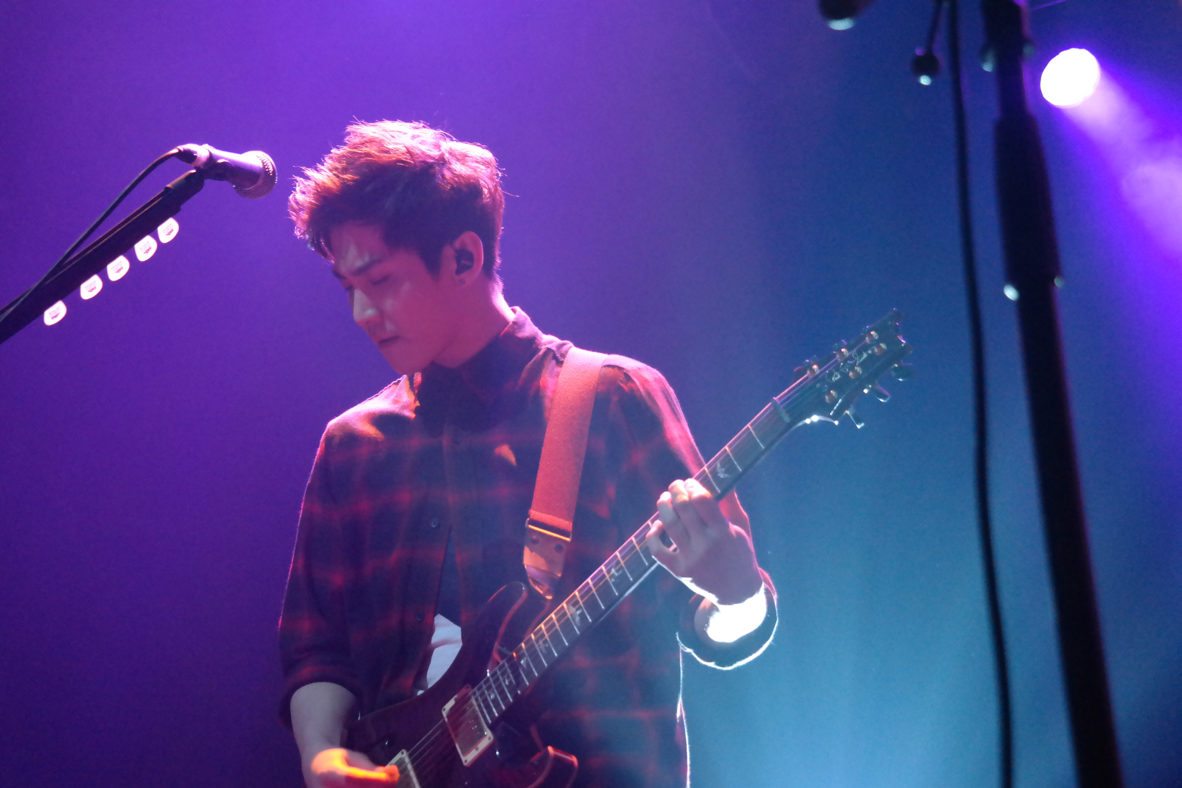 FTISLAND in Paris, La Cigale